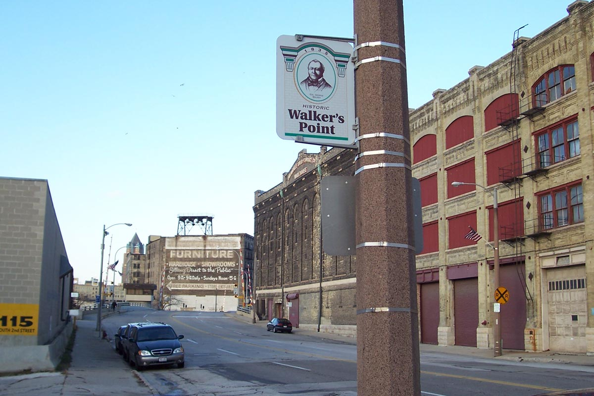 A streetscape of the historic Walker's Point warehouse district, just south of the river confluence in Milwaukee, WI.